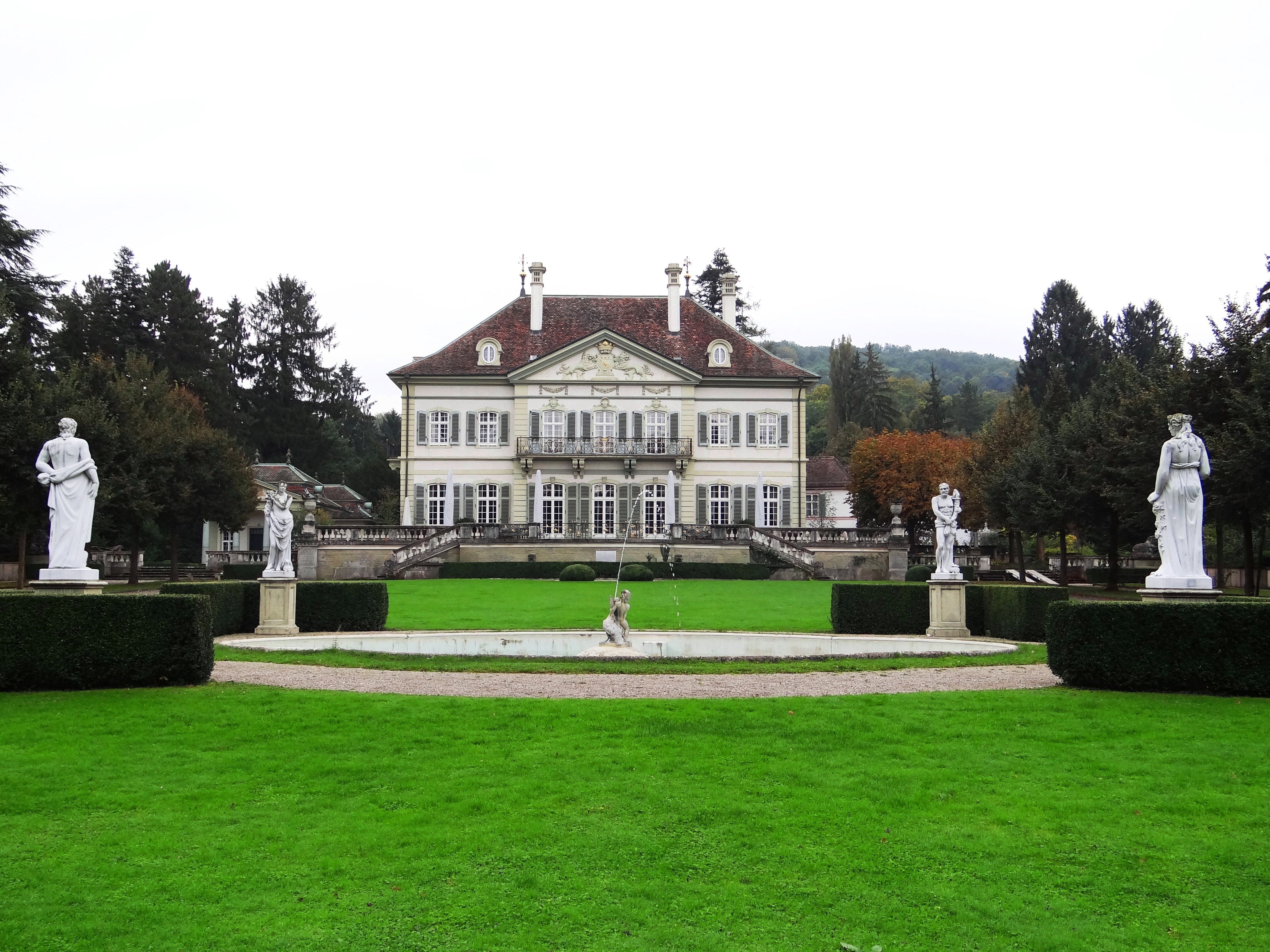 A mension house Neuer Wenkenhof in Riehen